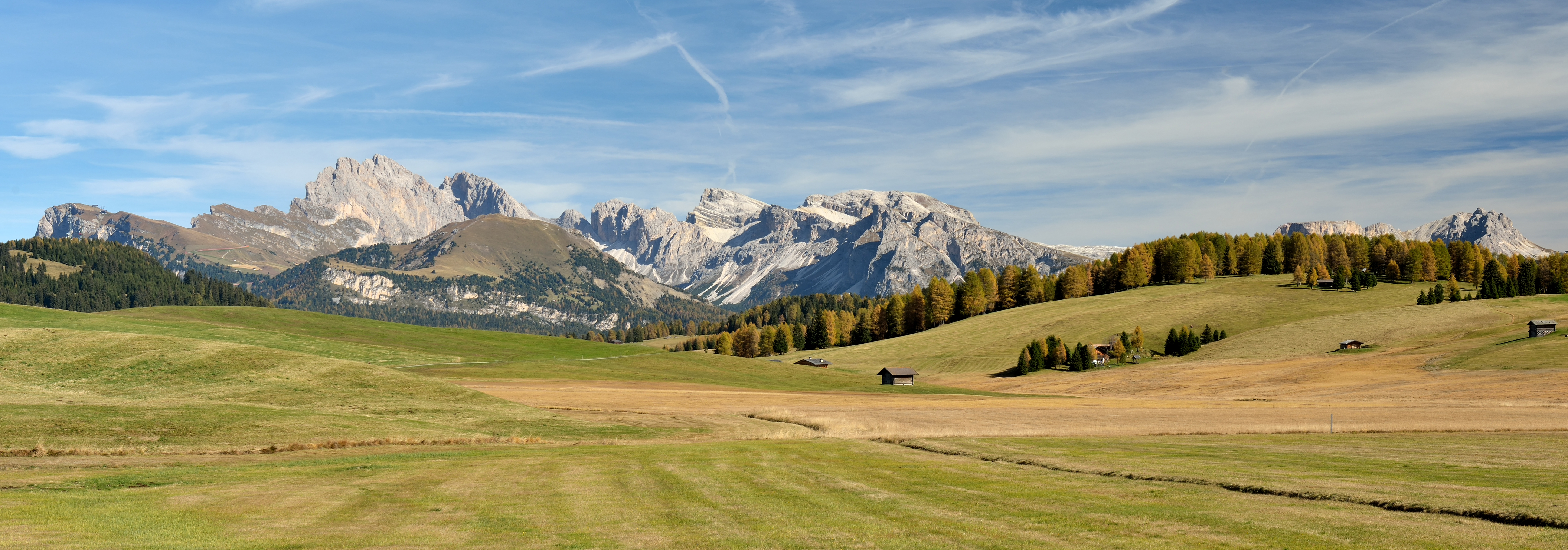 The Seiser Alm in South Tyrol, with the Odles ( in the background